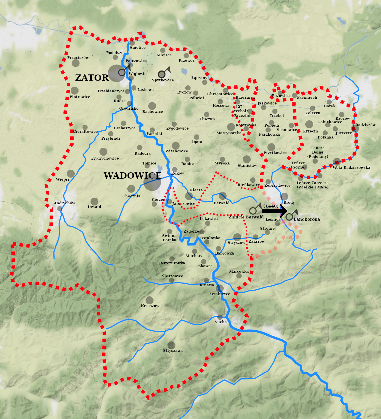 Duchy of Zator after the splitting from the Duchy of Auschwitz in 1445; The background is the Stamen Terrain from